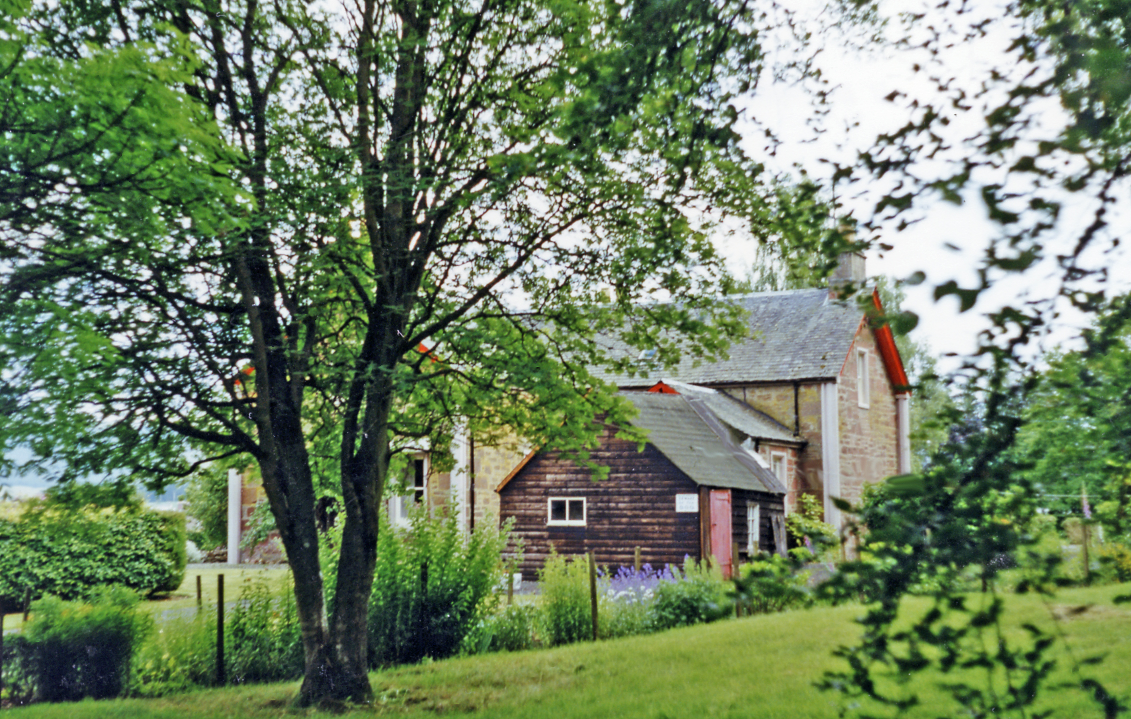 Former Burrelton station house, 1997. View southward: ex-Caledonian Railway Perth - Forfar - Bridge of Dun - Aberdeen main line, which in this scene had probably been on the far side of the house. The station ('Woodside & Burrelton' until 1/9/27) was closed 11/6/56 and the whole route abandoned from 4/9/67.